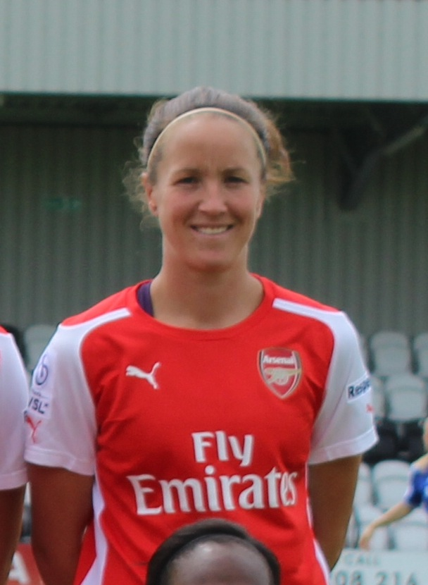 Arsenal Ladies first team photo in the new Puma kit